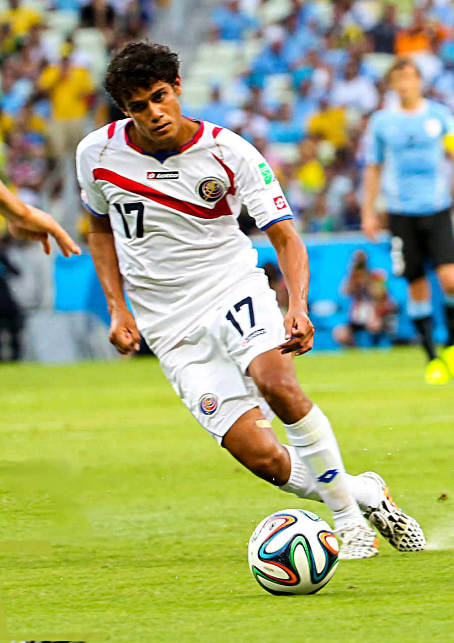 Yeltsin Tejeda. Uruguay and Costa Rica match at the FIFA World Cup 2014-06-14